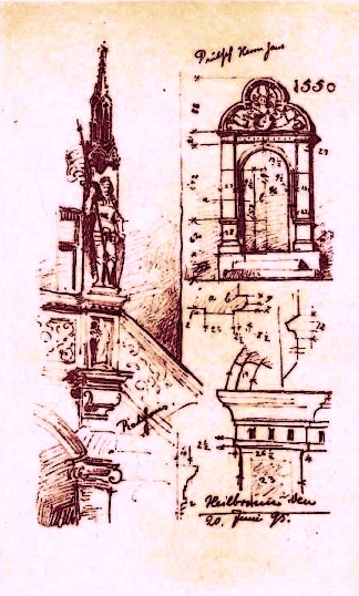 Franz Kanter BRANTZKY - "Reiseskizzen Rathaus Deutsch Herrenhaus" um 1895 (Ritterfigur auf der Galerie am alten Rathaus in Heilbronn), Archivsignatur E005-1180-0.jpg